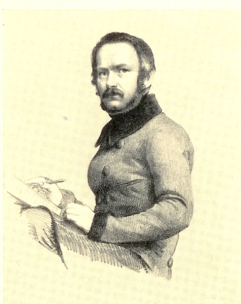 Erhard Joseph Brenzinger, Selbstportrait, Lithographie